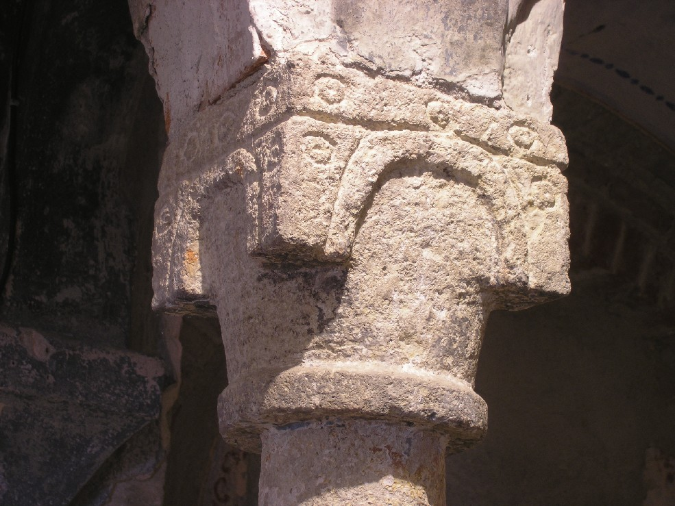 capitello;Candia Canavese